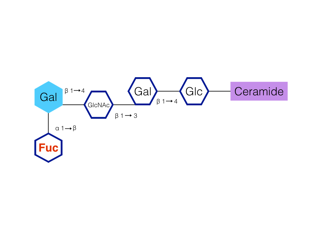 Biochemical structure of an H antigen. Shows the location of fucose, galactose, and ceramide.